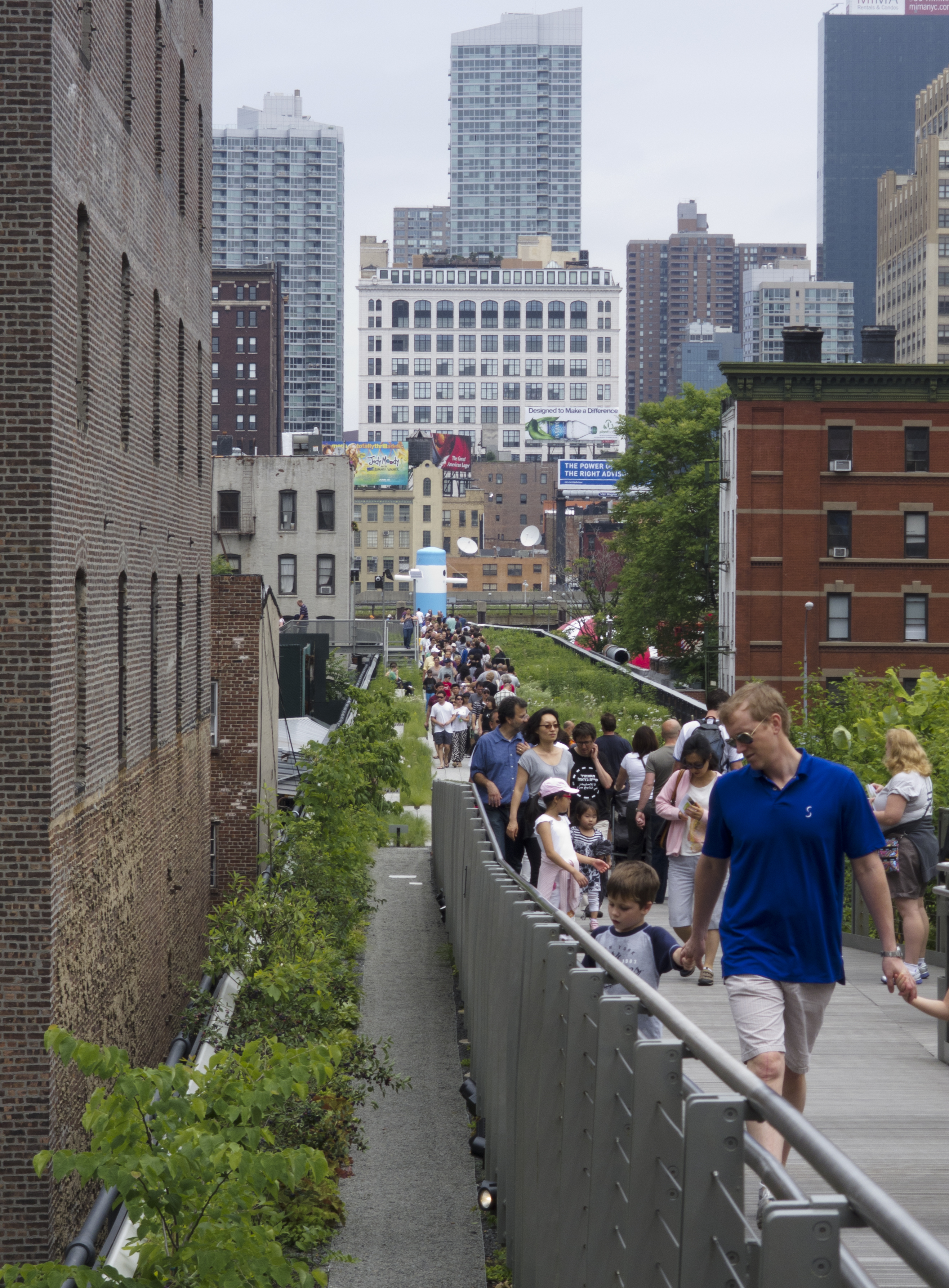 A busy Sunday on the High Line